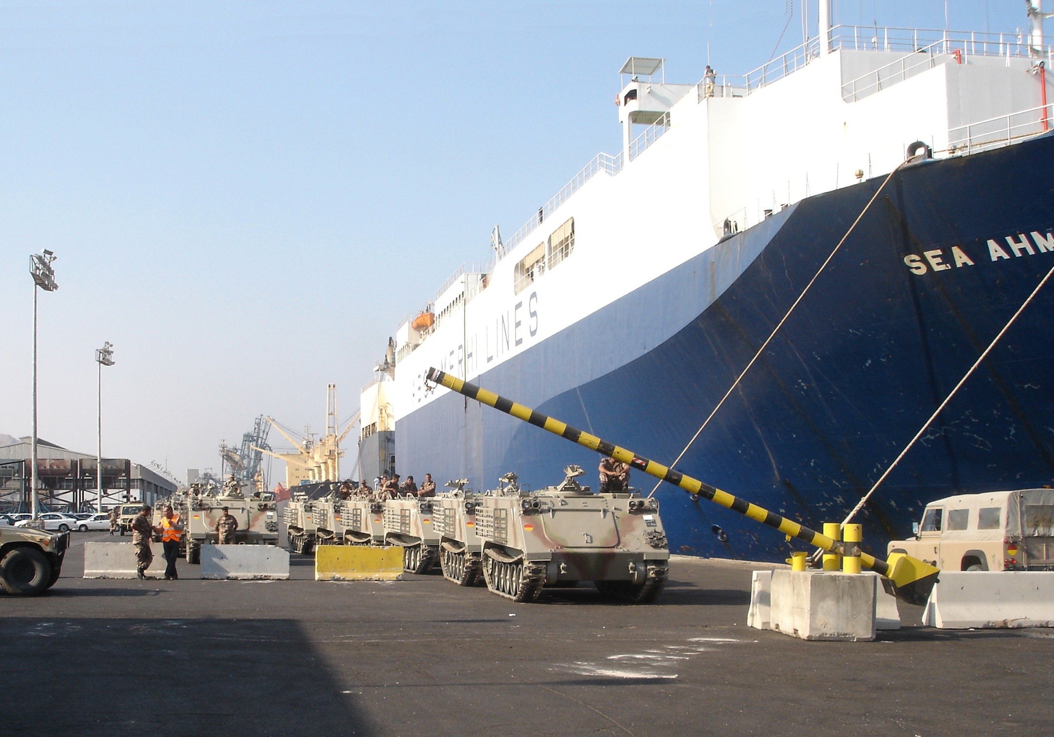 Armored personnel carriers belonging to the Jordanian Army prepare to board large, medium-speed, roll-on/roll-off ship USNS Red Cloud in Aqaba, Jordan, as part of Exercise Bright Star. MSC Central personnel worked with the U.S. Army's Military Surface Deployment and Distribution Command and Jordanian officials to complete the load.